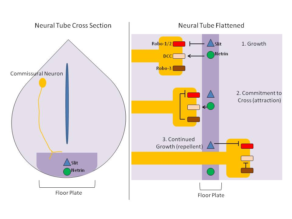 A powerpoint derived file depicting the crossing of the neural plate midline by commissural axons in vertebrates.